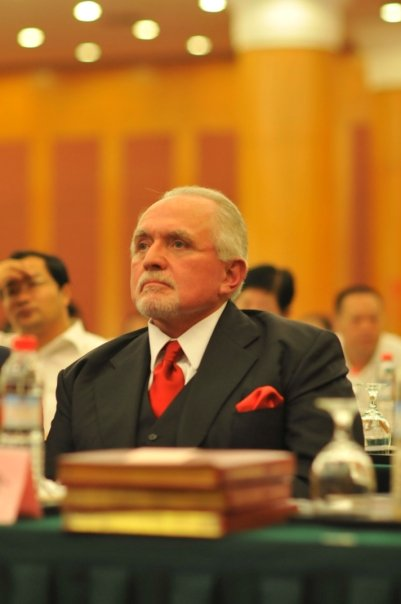 Dan in Chengdu, China, in September 2009